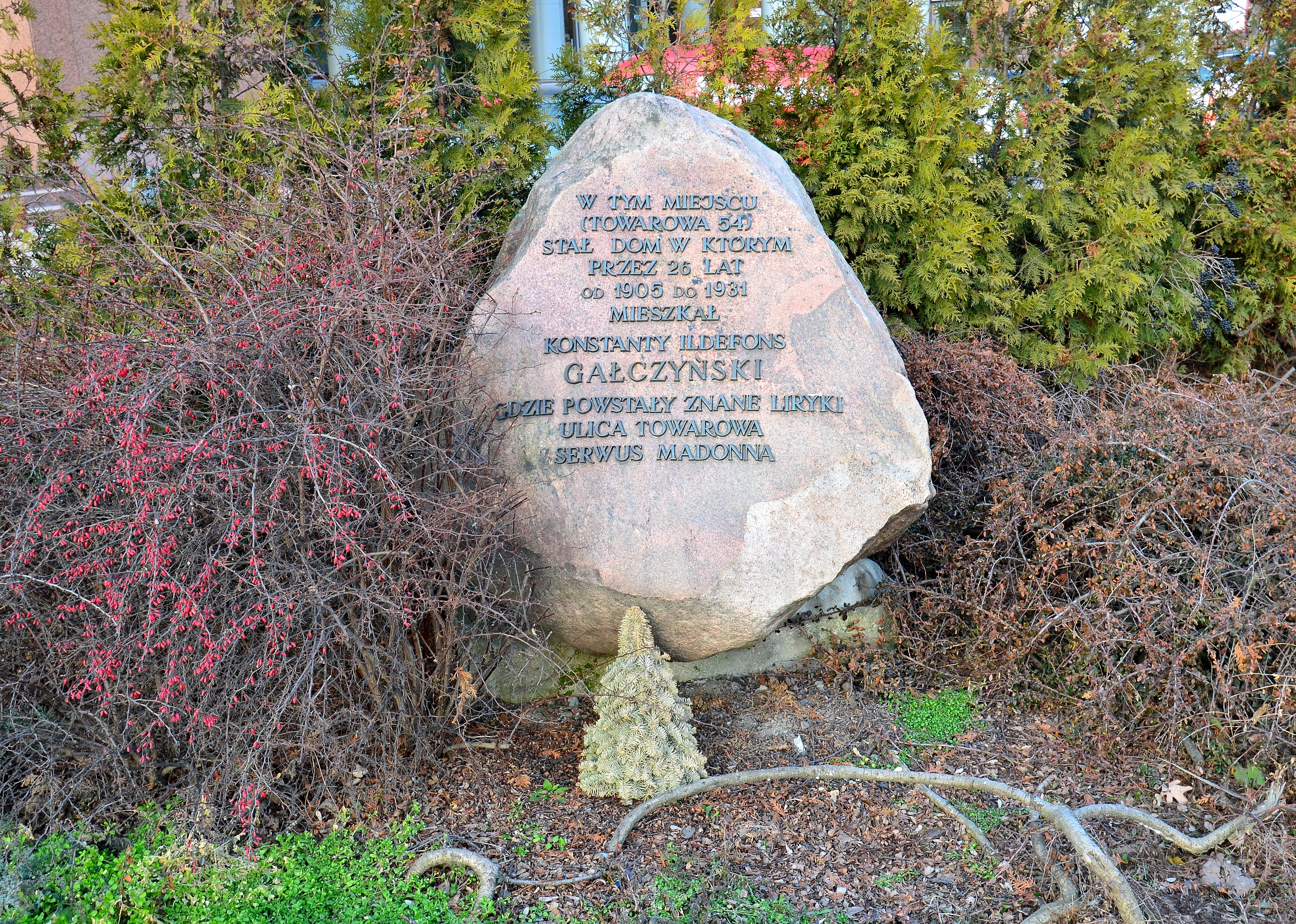 Stone in memory of Konstanty Ildefons Gałczyński in the place of the non-existent tenement house at 54 Towarowa Street at the intersection of Towarowa and Grzybowska Streets where the poet lived in 1906-1931